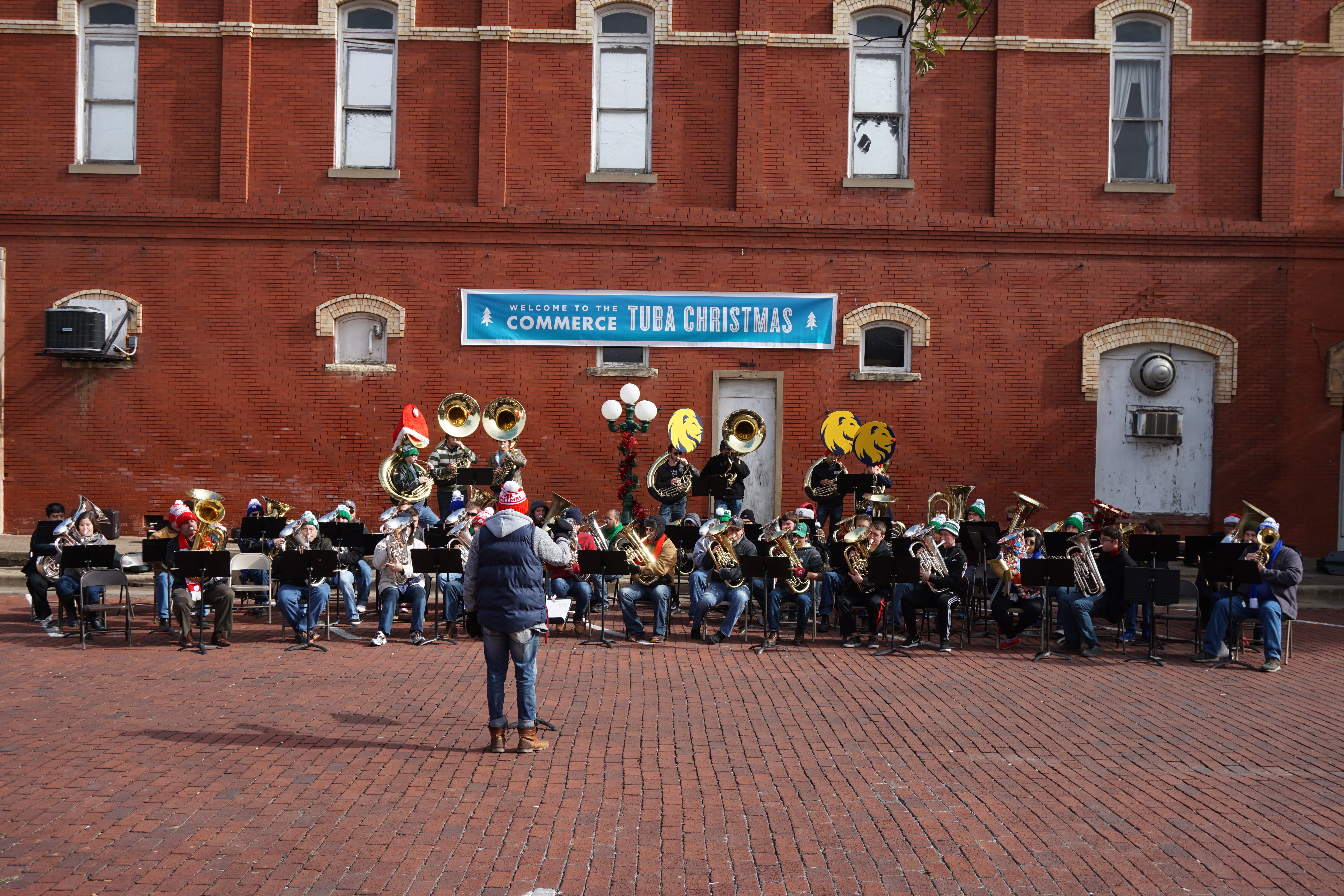 TubaChristmas at the 2016 Bois d'Arc Christmas Celebration in Commerce, Texas (United States).